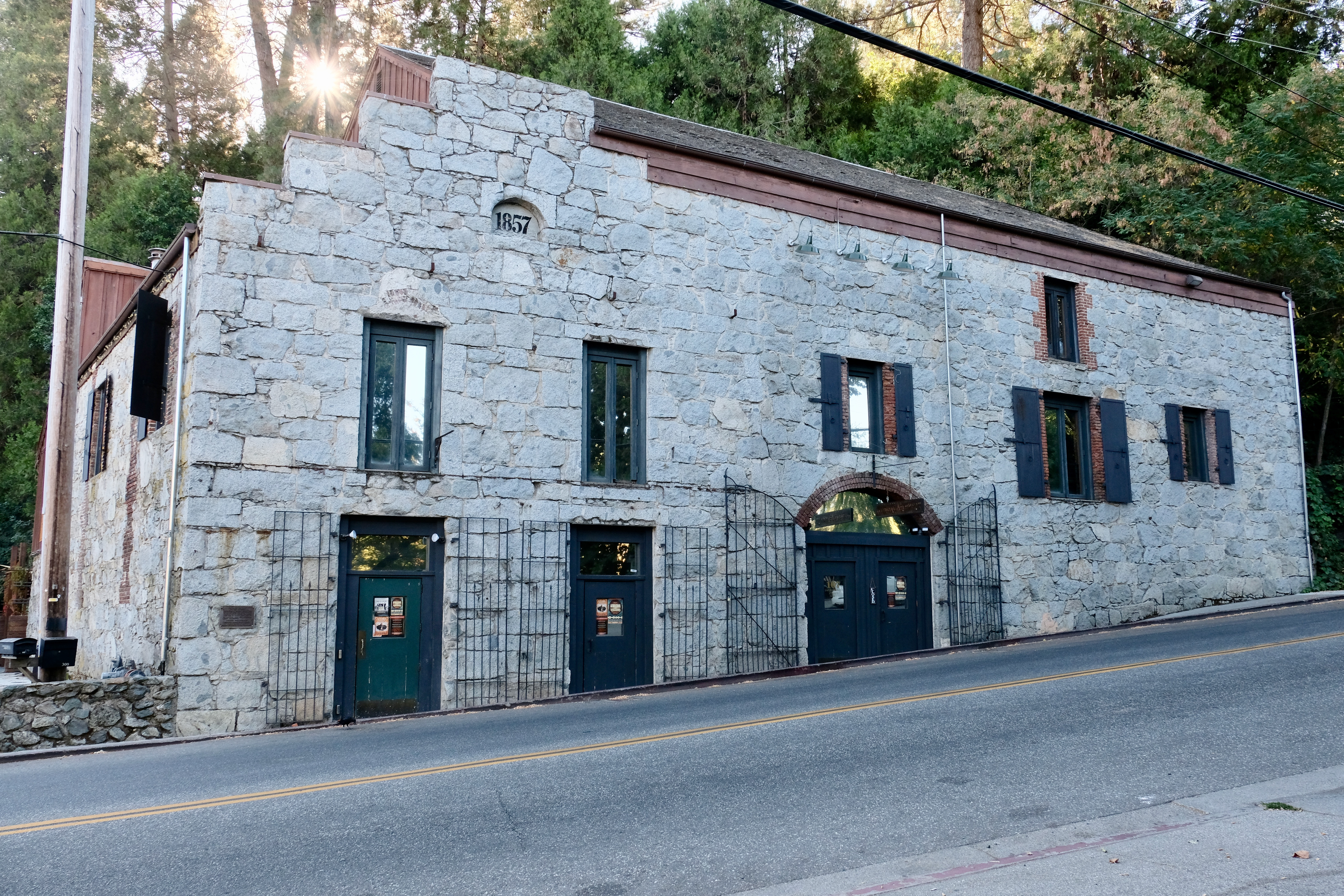 Front of Nevada Brewery building on 107 Sacramento St., Nevada City, CA